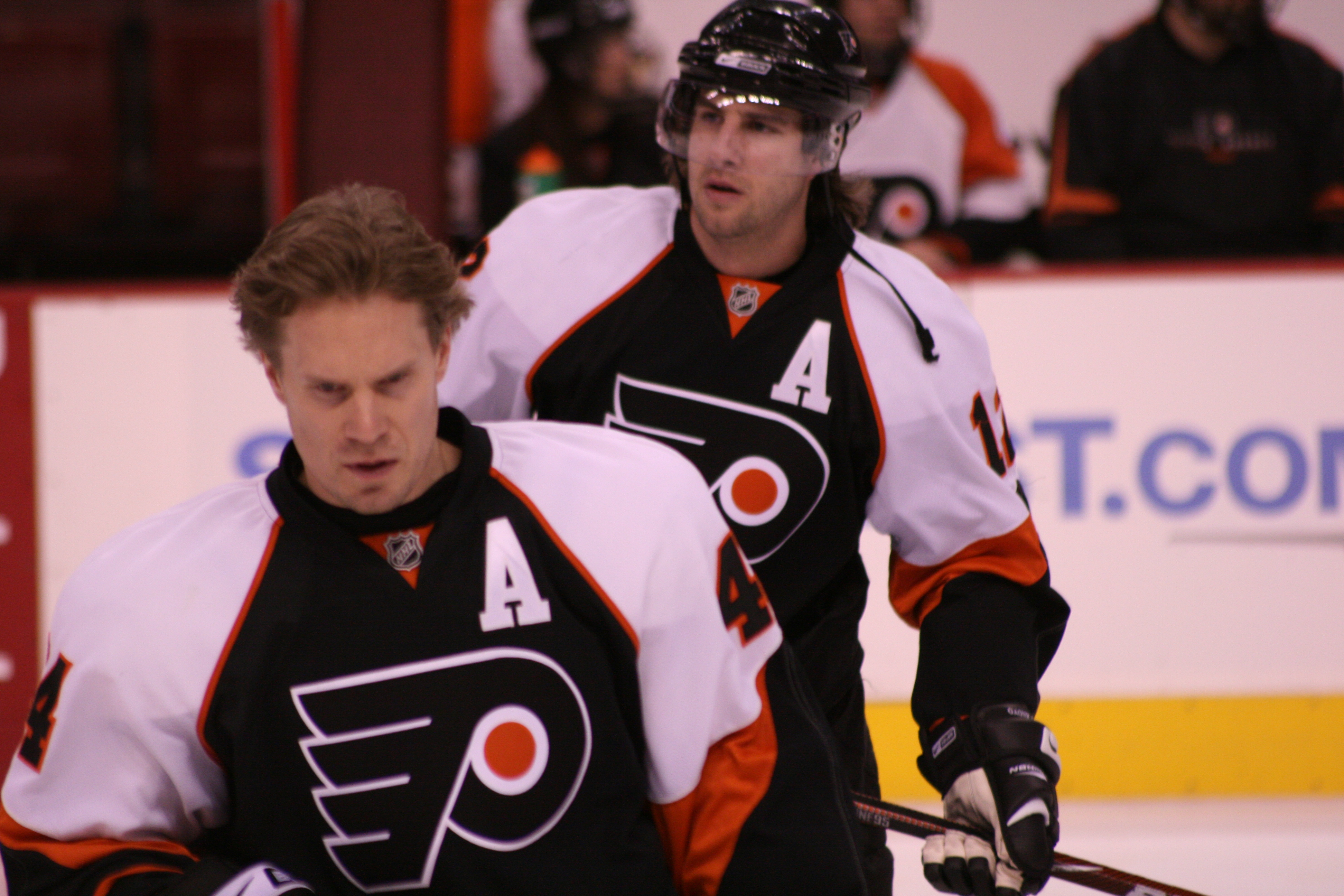 Two Philadelphia Flyers player: ahead Finnish defender Kimmo Timonen (44, A) and behind Canadian forward Simon Gagne (12, A)